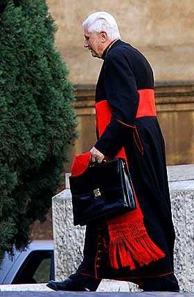 Joseph Ratzinger as Cardinal